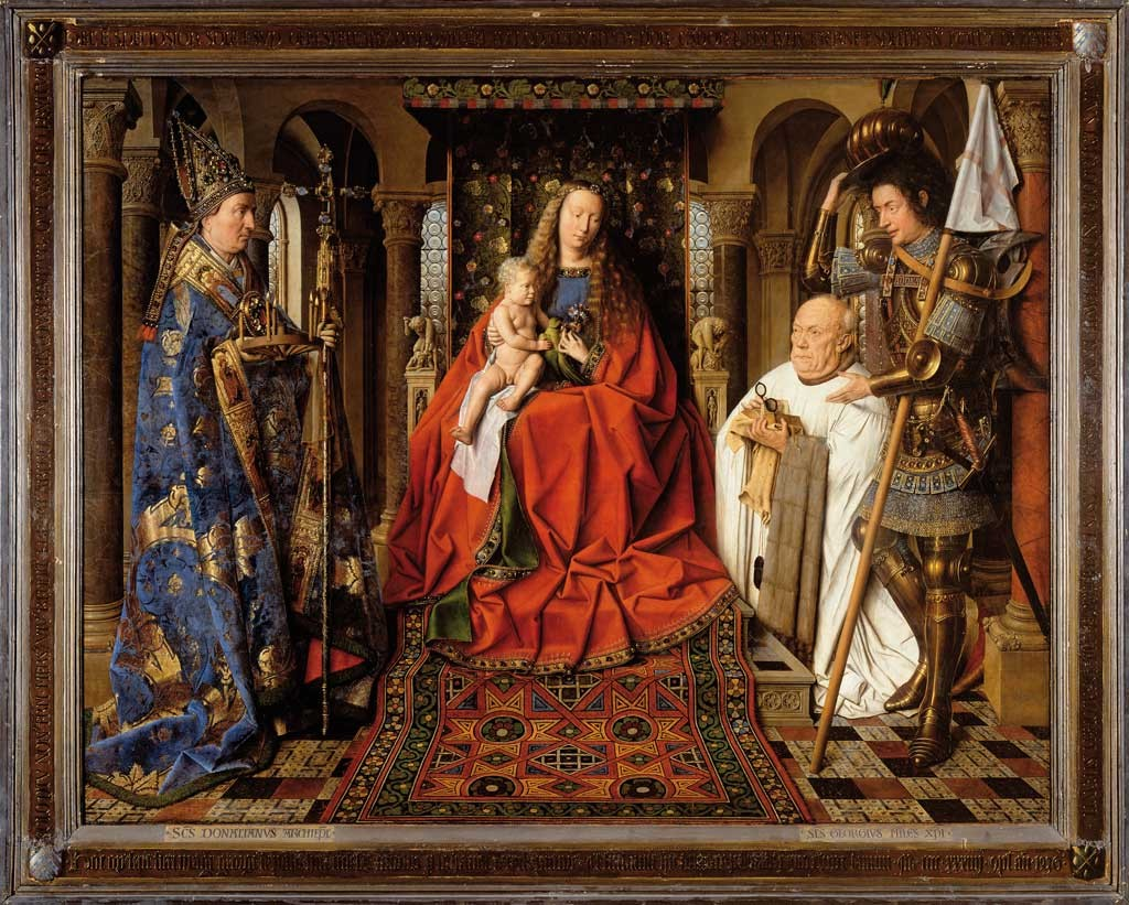 Oil on wood, 122 x 157 cm. Groeninge Museum, Bruges, Belgium